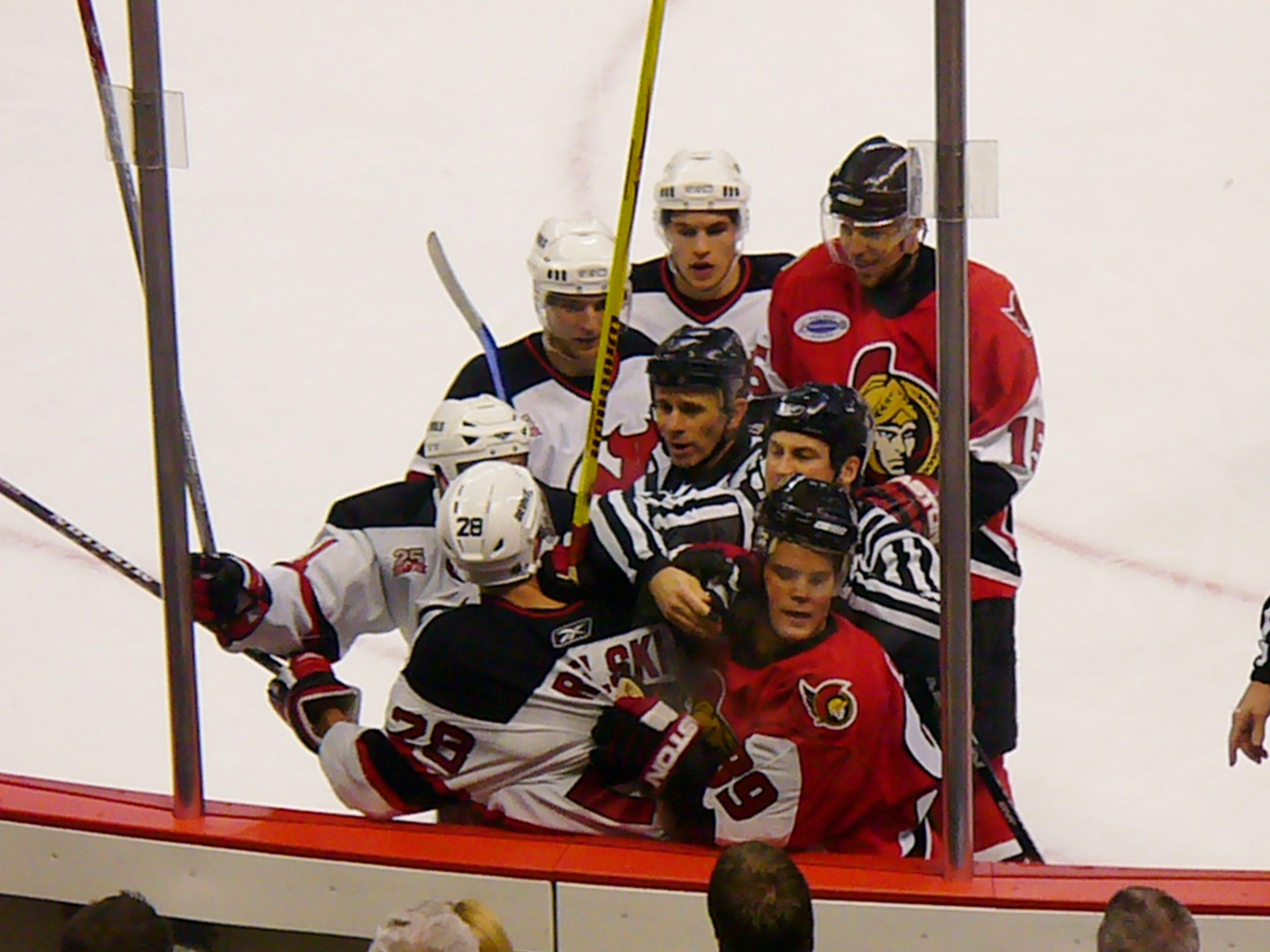 Ice hockey match between New Jersey Devils and Ottawa Senators, January 6, 2007. Visible is Brian Rafalski (bottom left) and Mike Comrie (bottom right) fighting.